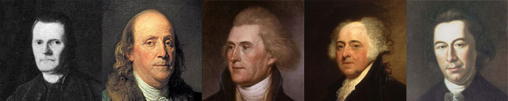 The "Committee of Five" that drafted the U.S. Declaration of Independence. Made from the images in the various Wikipedia articles.